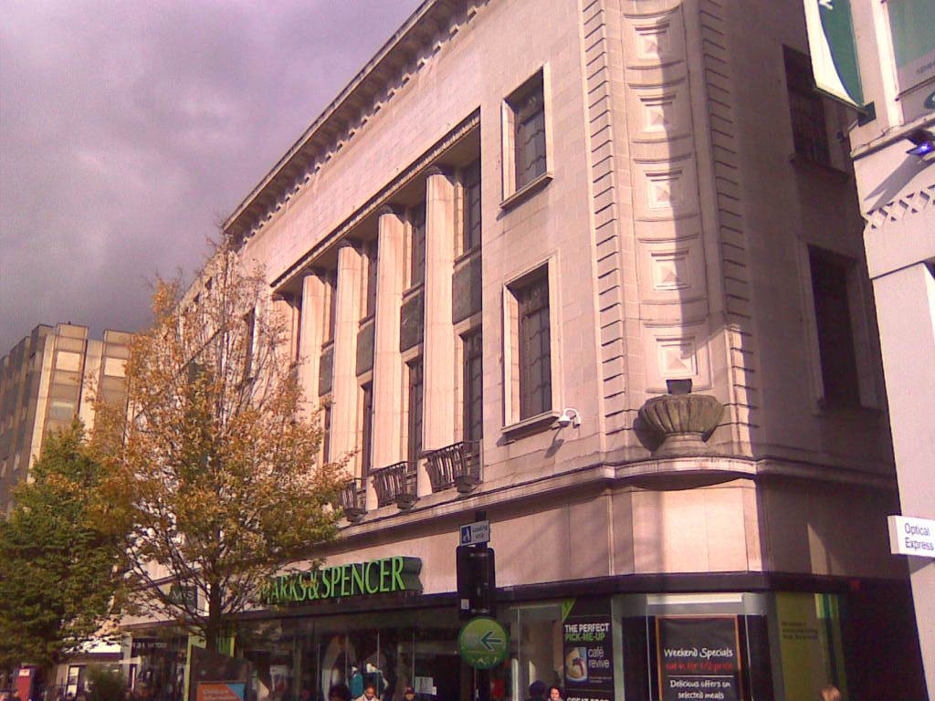 Marks and Spencer store, Birmingham High St.